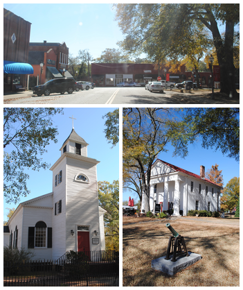 Photos I took around Pendleton, South Carolina